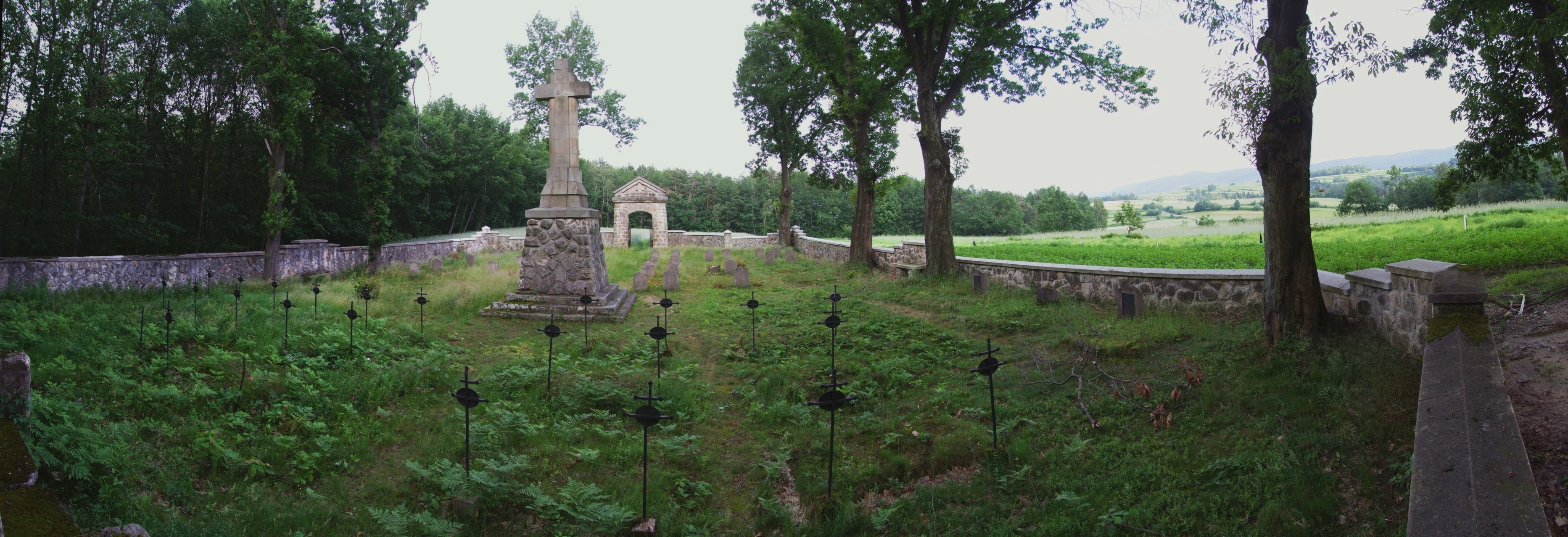 World War I Cemetery nr 303 - Rajbrot